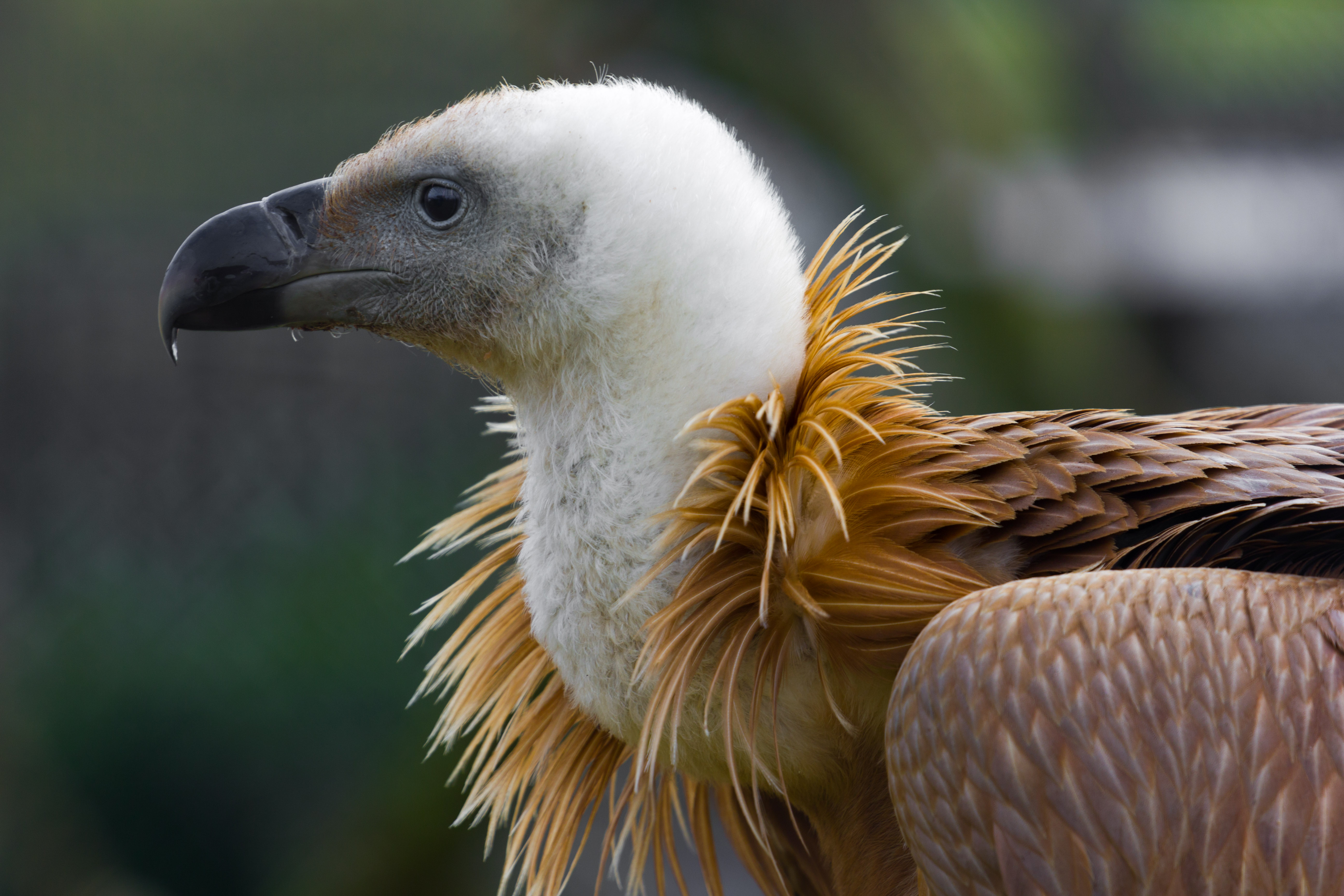 A Griffon Vulture at Dierenrijk Europa, Nuenen, Noord-Brabant, Netherlands.